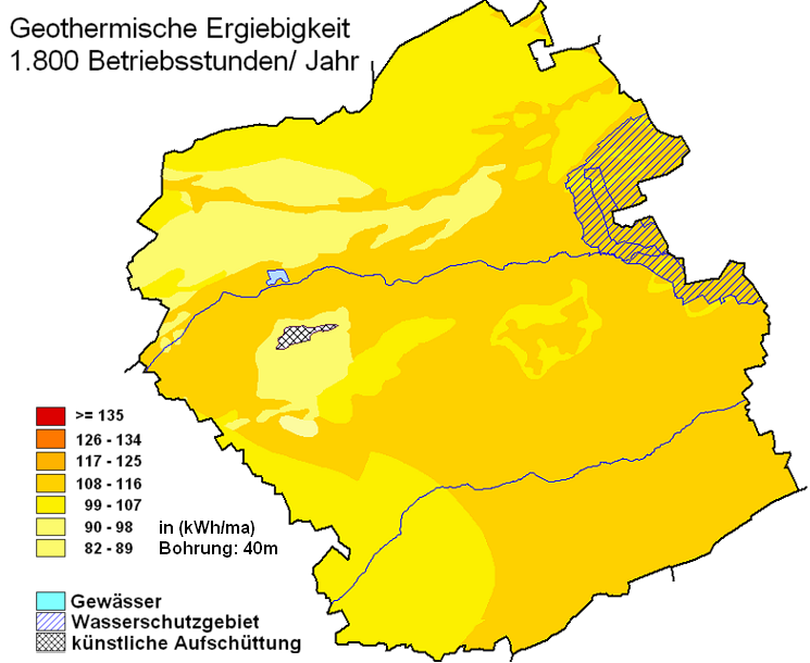 geothermal map of Verl